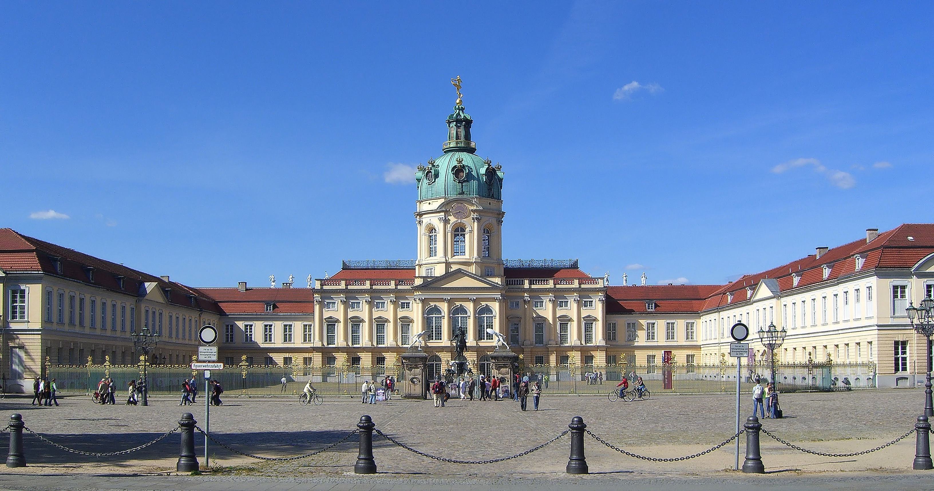 Charlottenburg Palace with Court of Honour and statue of Frederick William (Elector of Brandenburg) in Berlin